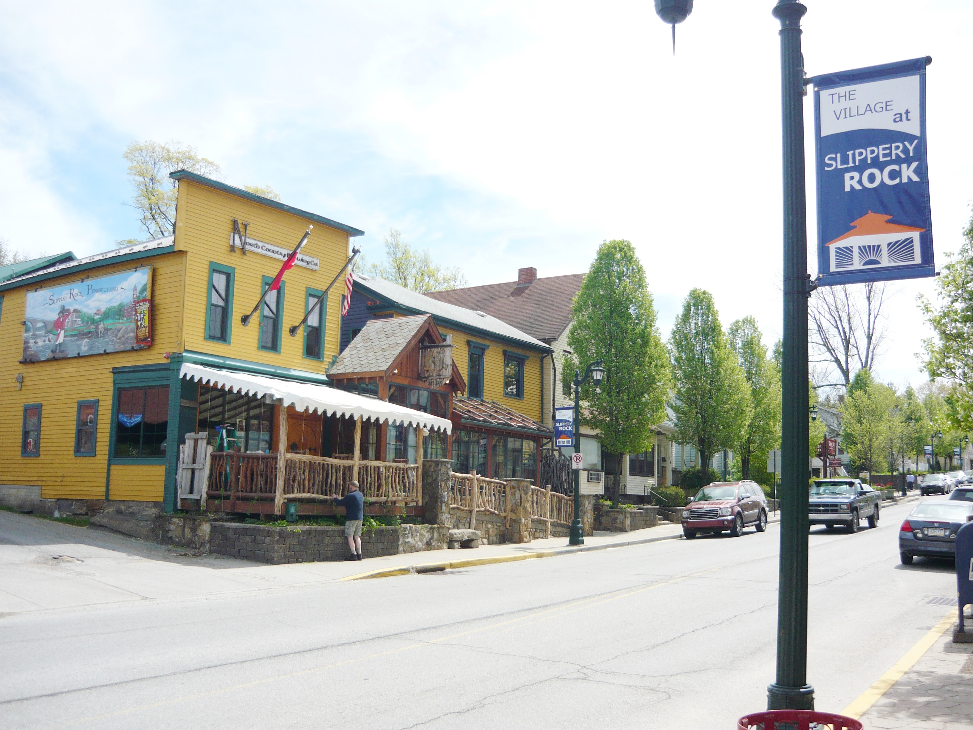 Business district of Slippery Rock, Butler County, Pennsylvania. Looking southward on South Main Street.